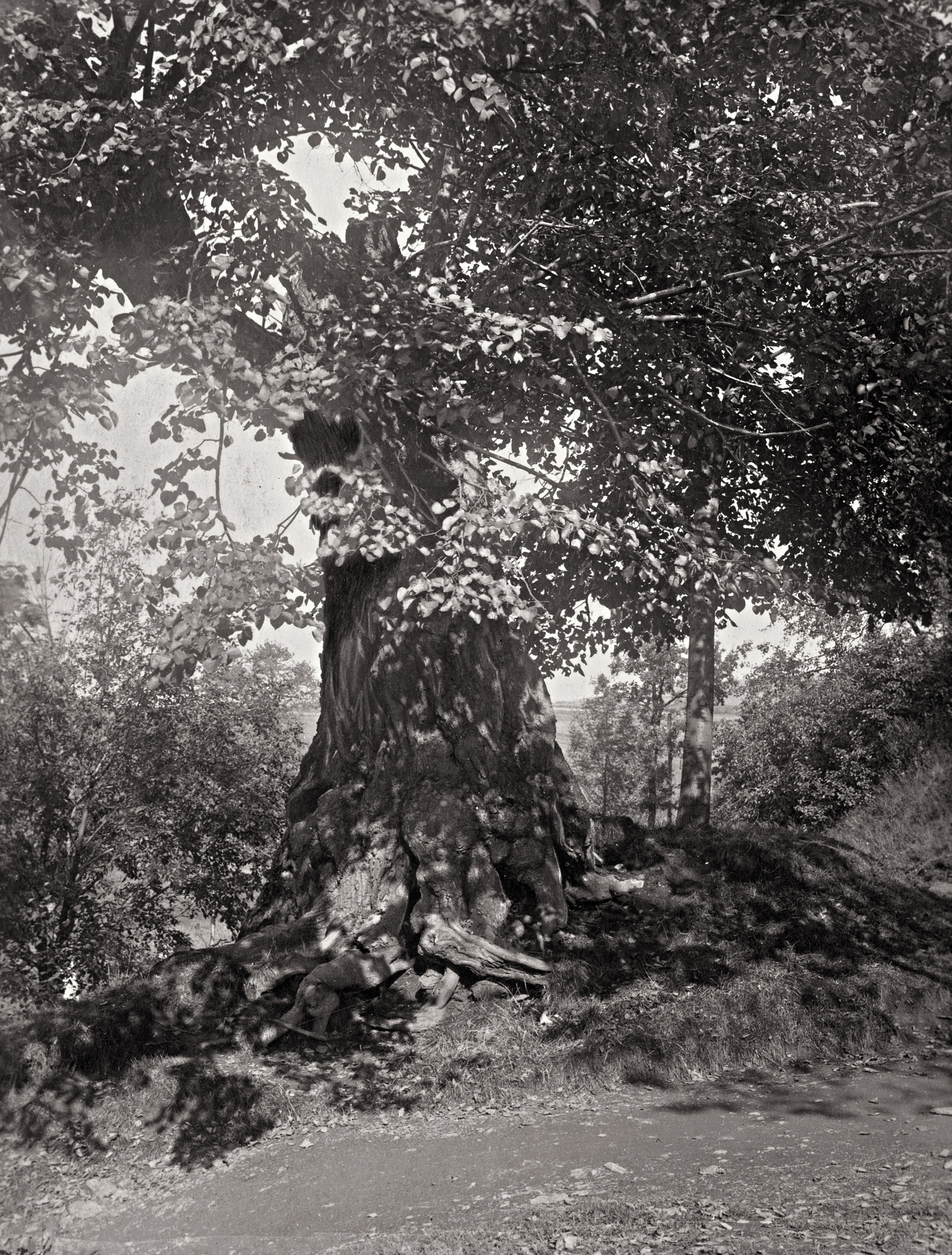 Memorable lime-tree in Vyprachtice, Czech Republic